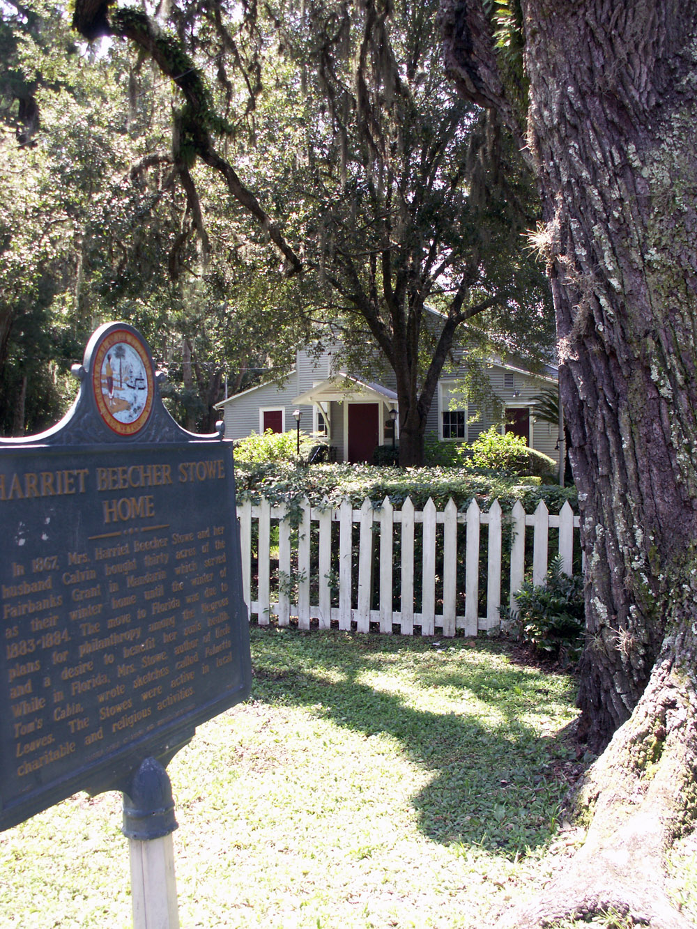 The site of the school Harriet Beecher Stowe sponsored in Mandarin, Florida in the 1870s, now the Mandarin Community Club, as described in her memoir Palmetto Leaves